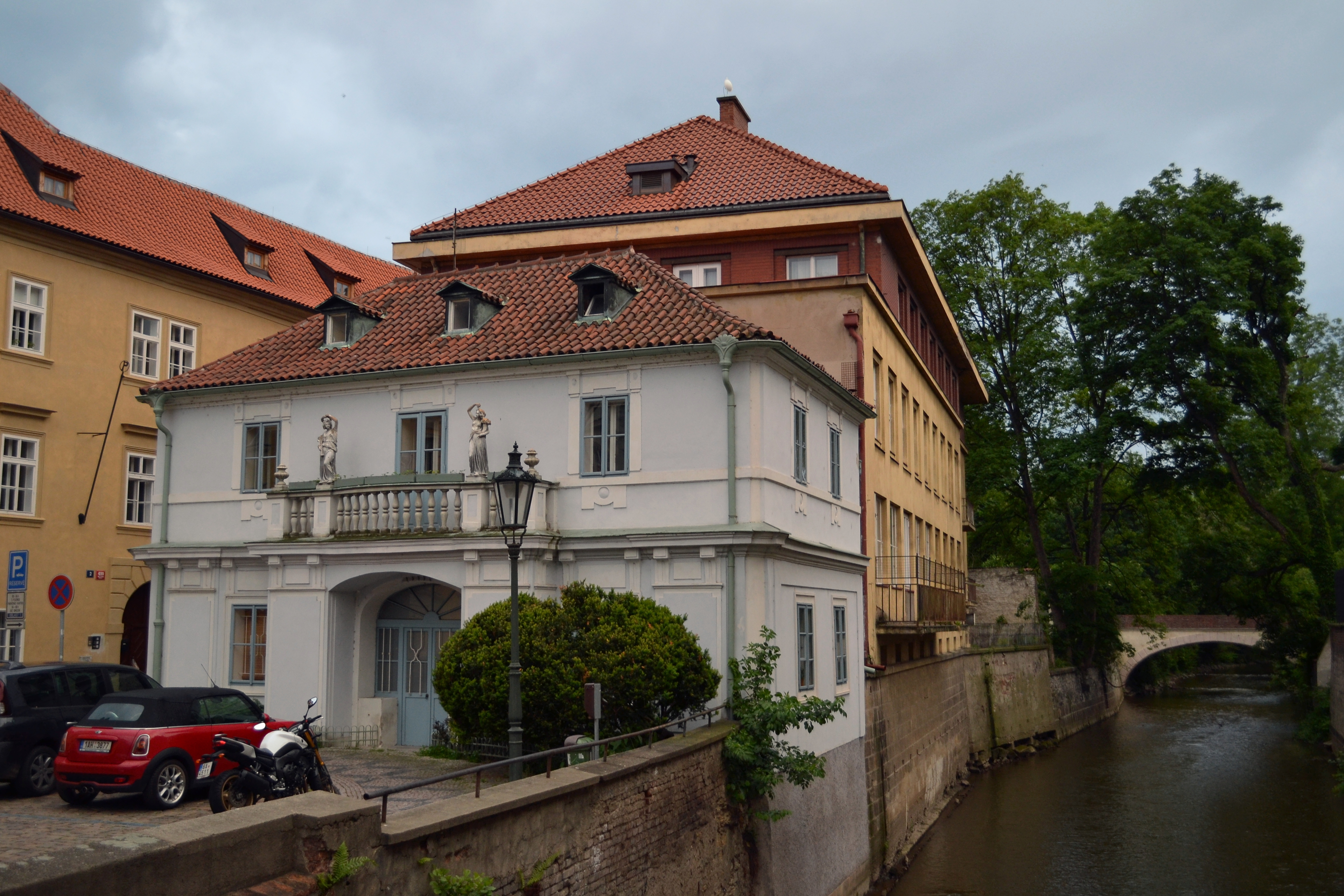 Cultural monument, house No. 500, Hroznová street 1, Malá Strana, Prague, Czech Republic. View from a little bridge over Čertovka.